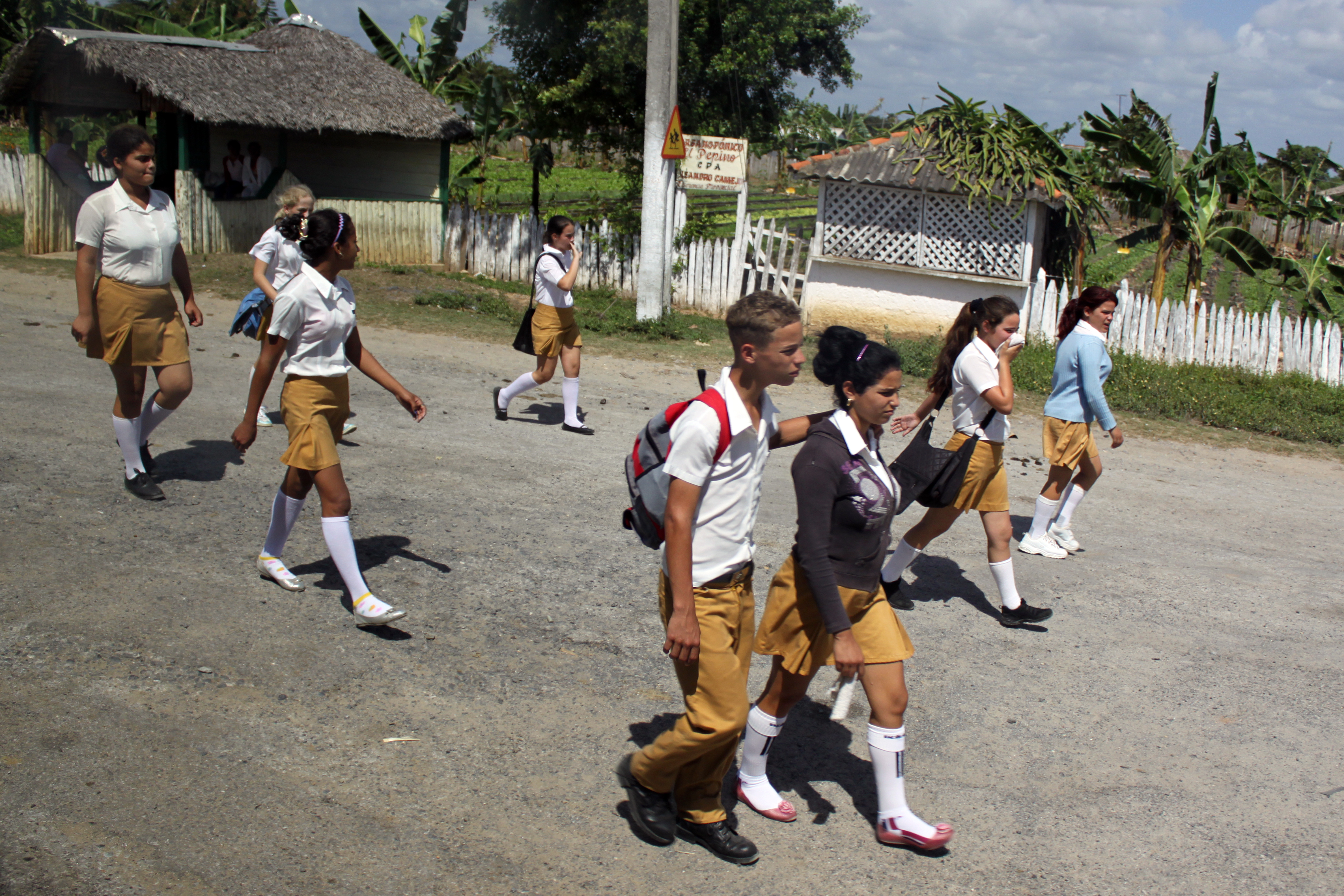 Street scene, city and province of Pinar del Rio, Cuba